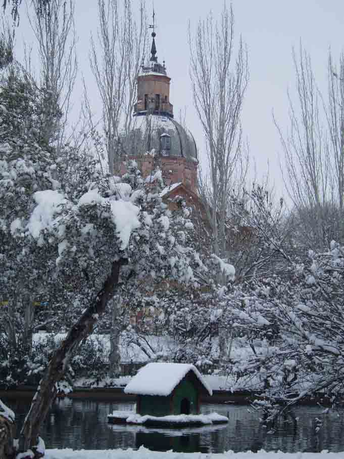 Winter, Basilic of Our Lady of the Prado (Talavera de la Reina, Spain) seen from the Alameda Park.